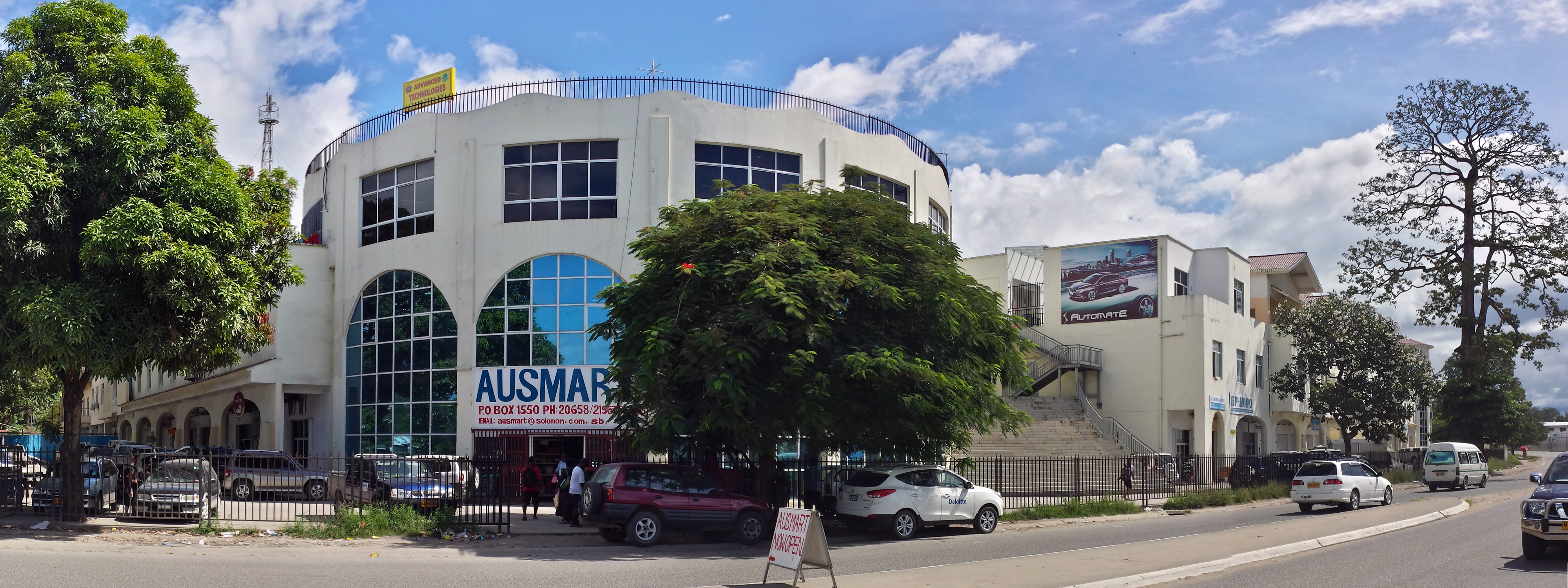 Photo of Sol Plaza, Honiara